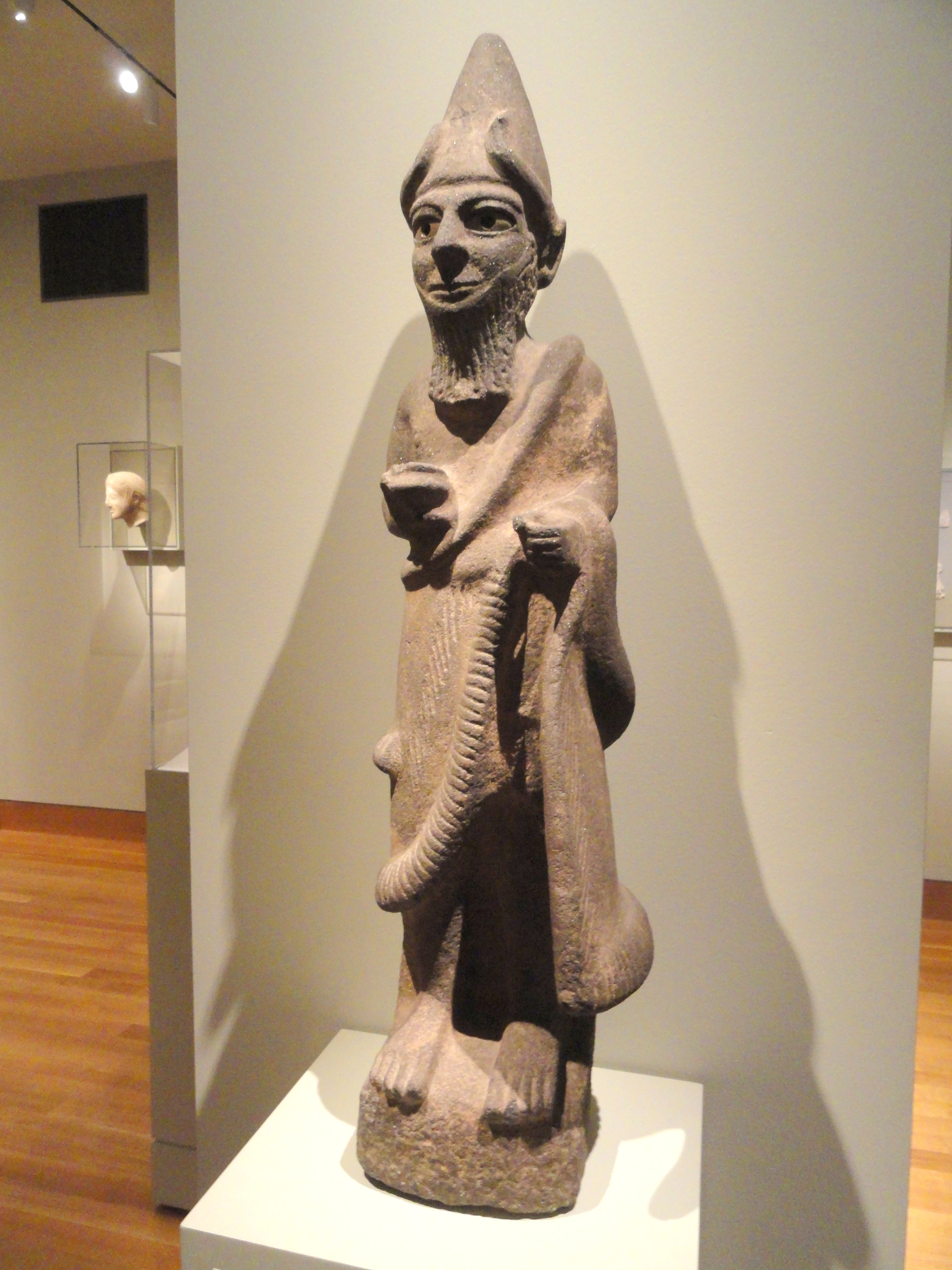 Exhibit in the Cleveland Museum of Art, Cleveland, Ohio, USA. This artwork is old enough so that it is in the public domain.